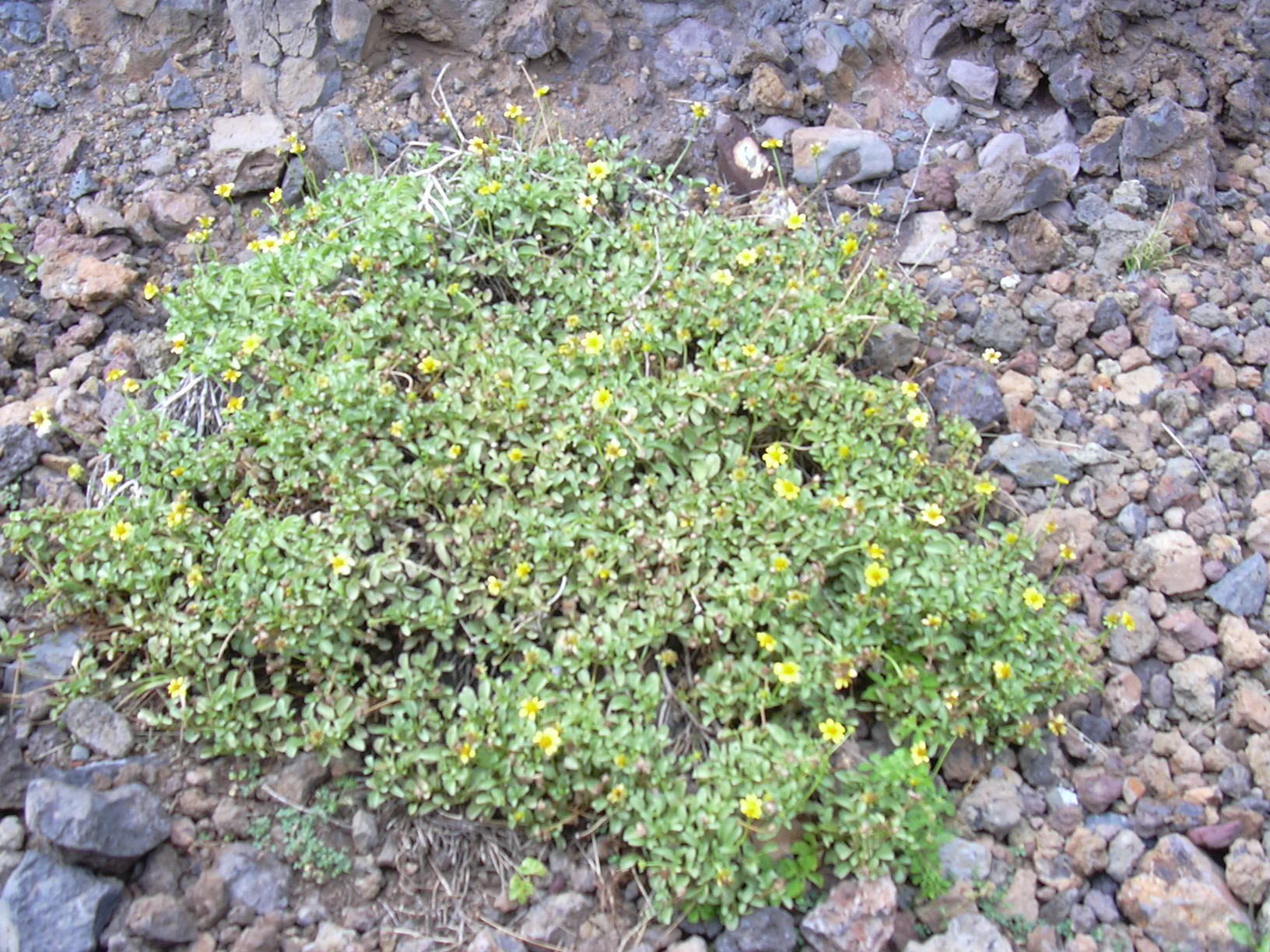 Bidens mauiensis (habit). Location: Maui, Manawainui